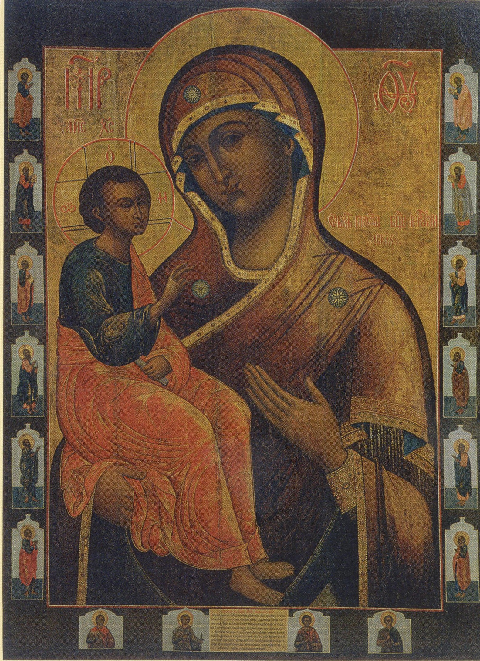 The Theotokos of Jerusalem, Izmailovo copy